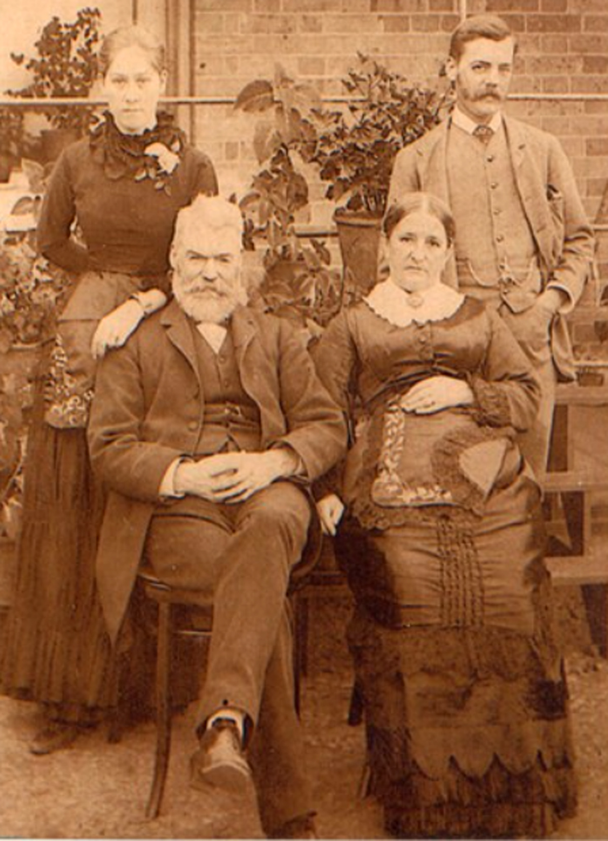 The Muddle family of Fairholm, Strathfield, NSW